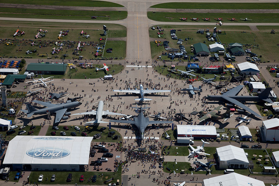 View of the Boeing Plaza of EAA Airventure 2017 showcasing the B-52, A-10, B-29, B-25, B-1, P-8, KC-135, and many more.